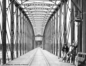 South-to-north view of the Kansas City Hannibal Bridge, the first bridge to cross the Missouri river. The men in the foreground are, left to right: George Morrison, Assistant Engineer, Octave Chanute, Chief Engineer, and Joseph Tomkinson, Superintendent of Superconstruction.